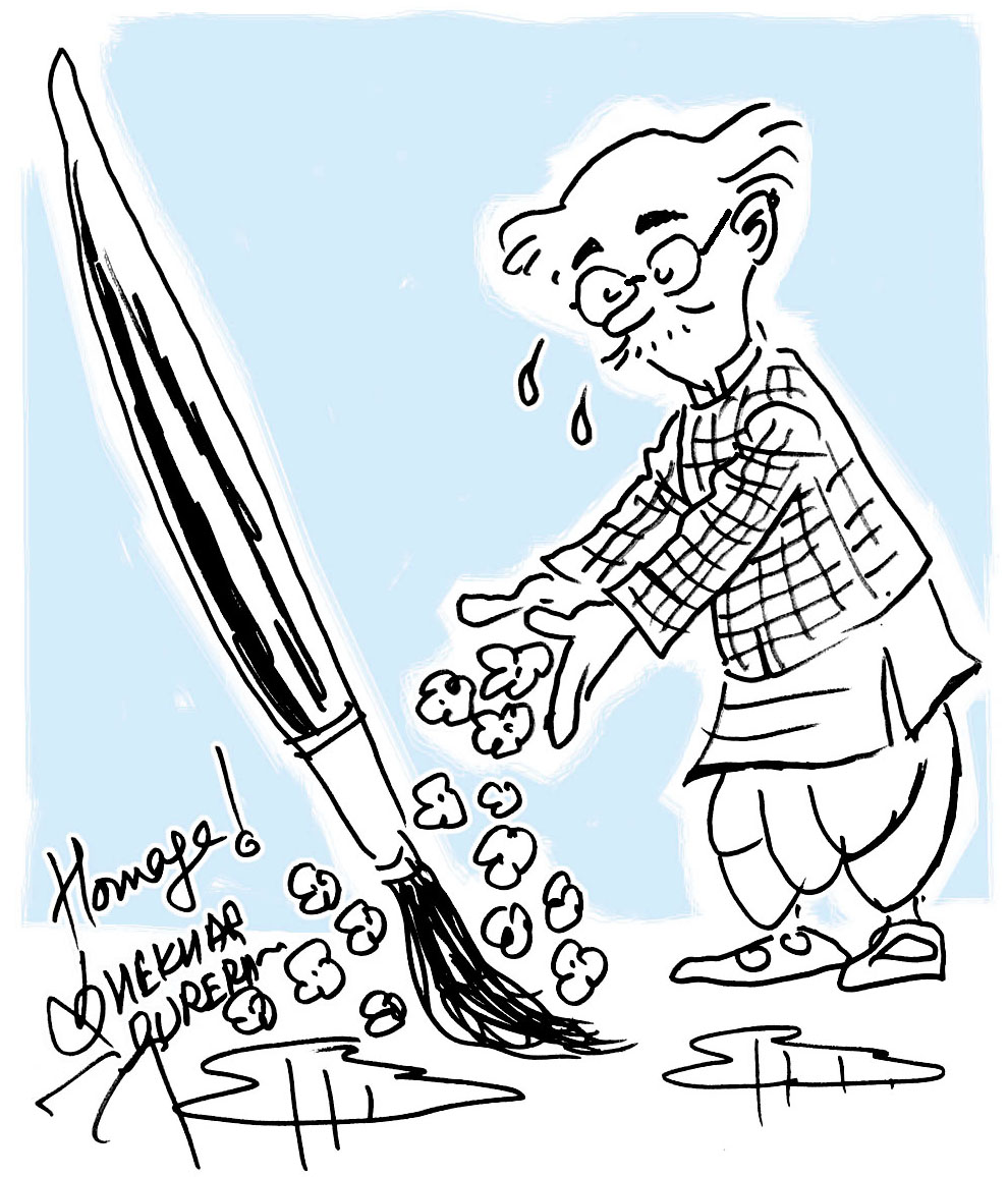 A tribute to the legend cartoonist Late R K Laxman (24 October 1921-26 January 2015) by Cartoonist Shekhar Gurera